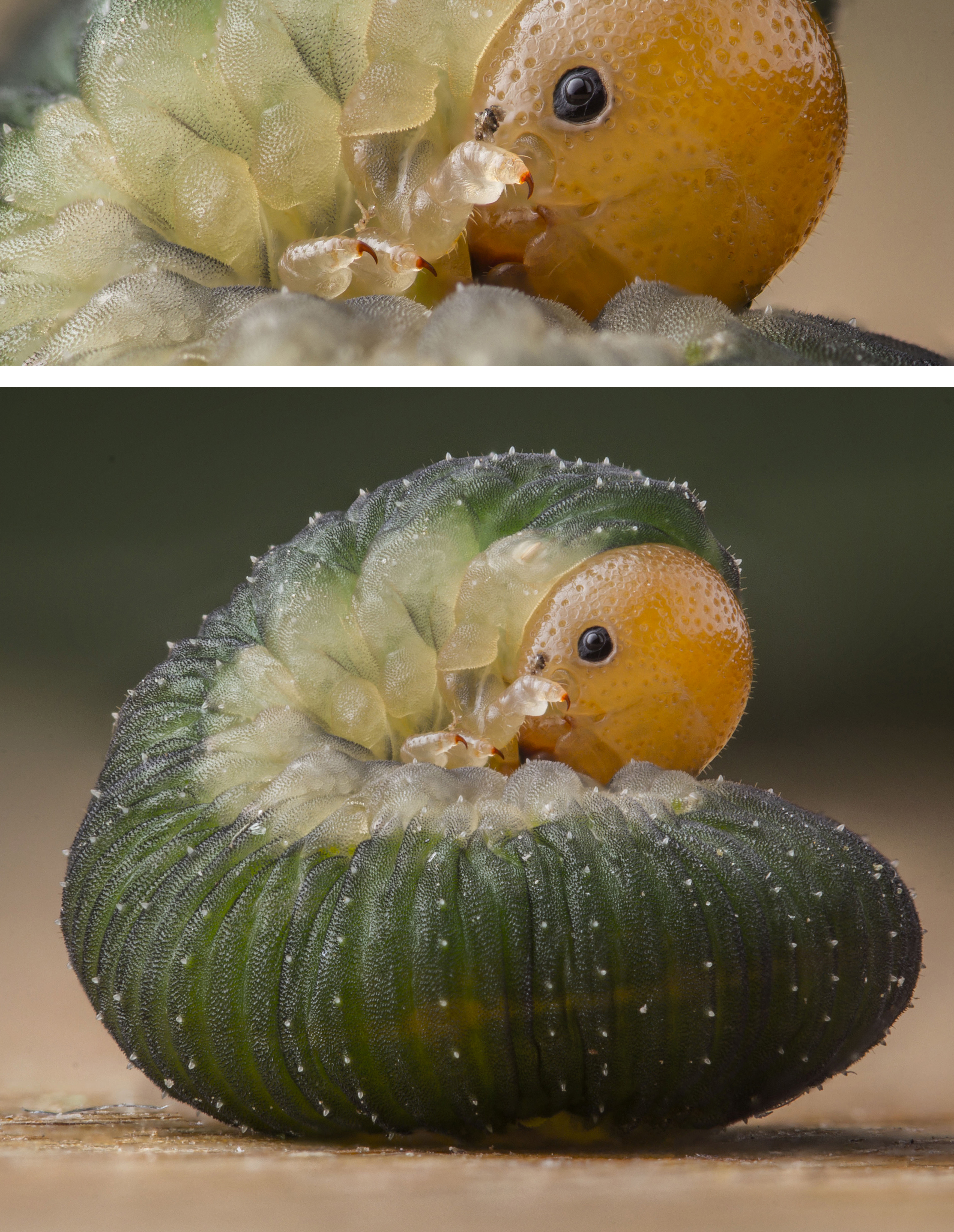 Focus stacking of 20 pictures.Upper one shot with 3 extension tubes + Raynox DCR 250. (stacked from 20 images) ~ 3.5:1 Magnification Ratio The lower one shot with just the extension tubes. (stacked from 19 images) ~ 2:1 Magnification Ratio Flash: Yongnuo YN-565EX View in full size!